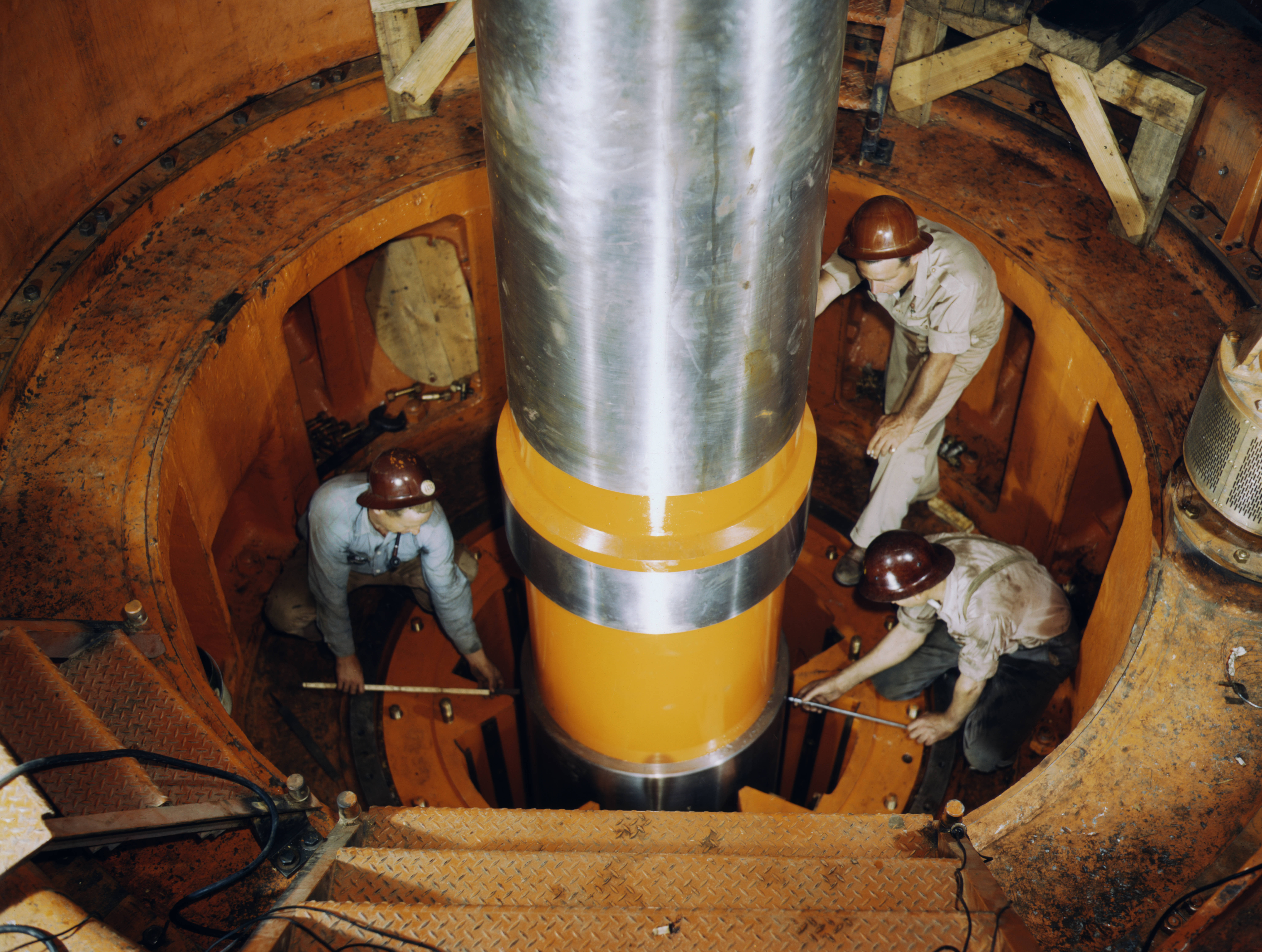 Checking the alignment of a turbine shaft at the top of the guide bearing in TVA's hydroelectric plant, Watts Bar Dam, Tenn. Located 530 miles above the mouth of the Tennessee River, the dam has an authorized power installation of 90,000 kw., which can be increased to a possible ultimate of 150,000 kw. The reservoir at the dam adds 370,000 acre-feet of water to controlled storage on the Tennessee River system.